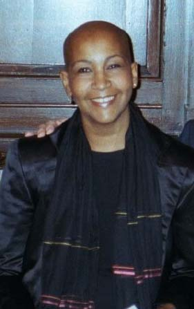 Marsha Hunt in September 2005